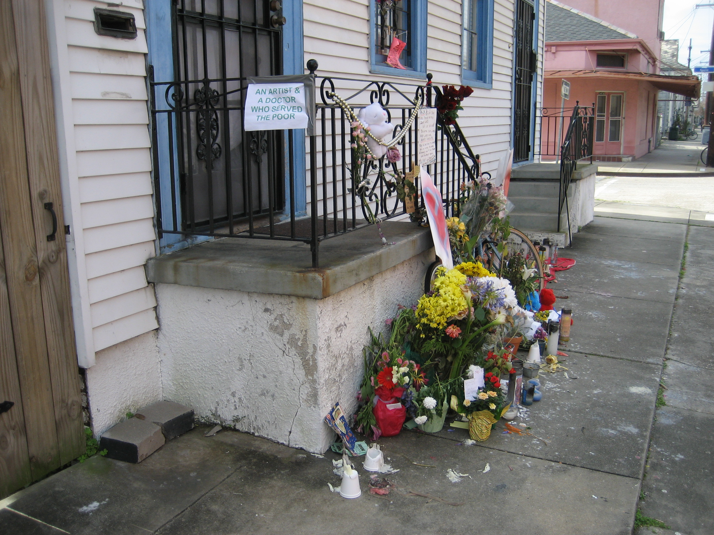 Memorial outside home of shooting victims in Marigny neighborhood, New Orleans